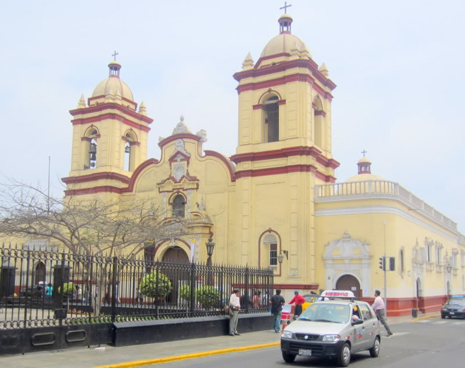 Iglesia San Agustín